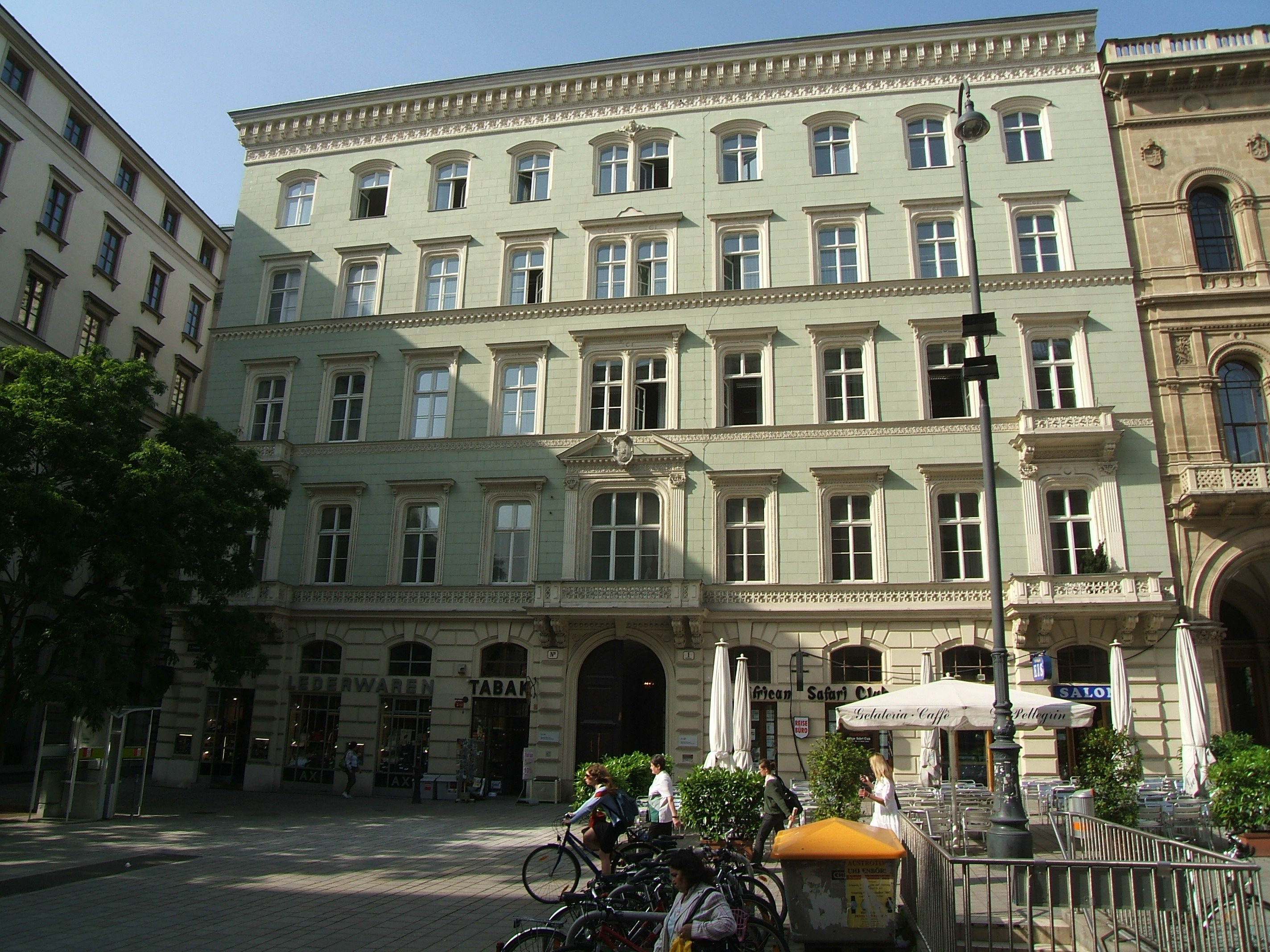 Palais Hardegg in Vienna 1st district Freyung 1